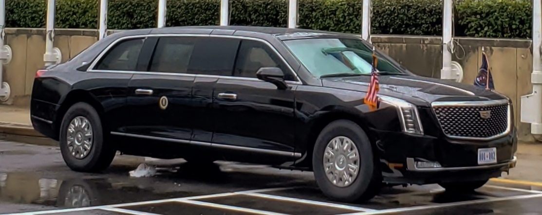 Cadillac Presidential Limousine (2018) in front of the United Nations headquarters in New York, 25 September 2018